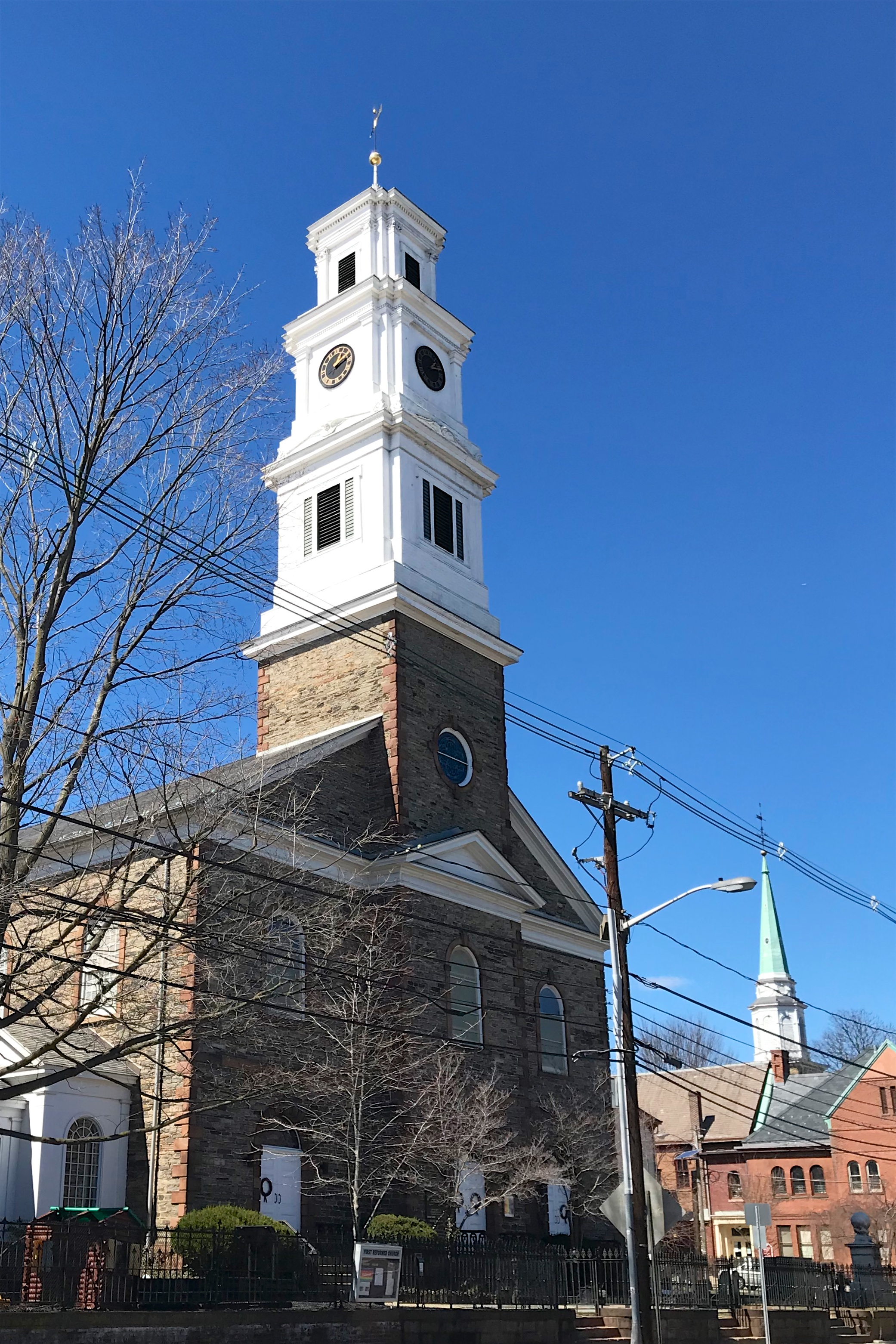 South view of the First Reformed Church of New Brunswick in New Brunswick, New Jersey. Steeple of nearby Christ Church visible in the background.